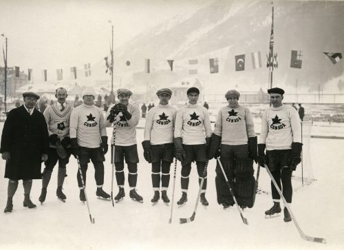 Ice Hockey Team during Winter Olympics, Chamonix,France. 1924 Hebt u meer informatie over deze foto, laat het ons weten. Laat een reactie achter (als u ingelogd bent bij Flickr) of stuur een mailtje naar: Please help us gain more knowledge on the content of our collection by simply adding a comment with information. If you do not wish to log in, you can write an e-mail to: Meer foto’s van het Nationaal Archief zijn te vinden in de fotocollectie op gahetna.nl